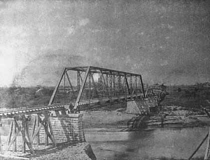 Toyohiragawa Bridge of Horonai Railway